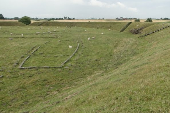 Vikingborg